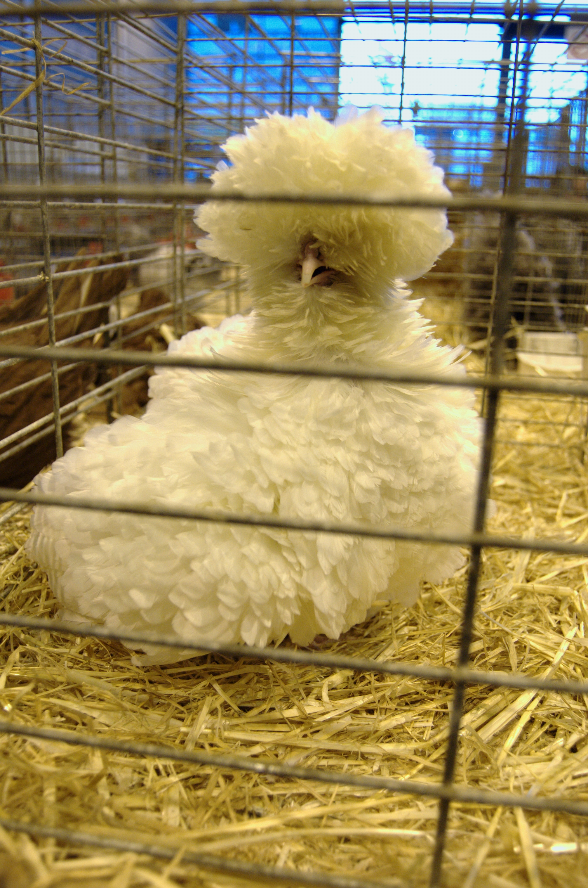 A chicken of the Paduan Frizzle White breed (not Polish chicken). Salon international de l'agriculture 2009, Paris, France, February 22, 2009.